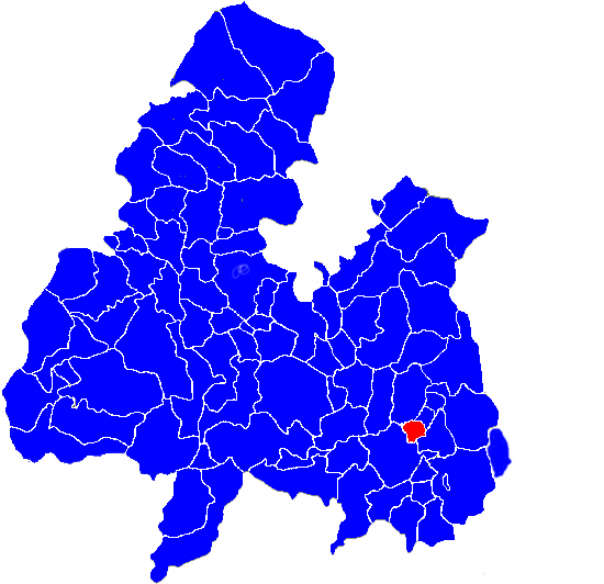 Outline map of North Tipperary, showing location of Shyane civil parish